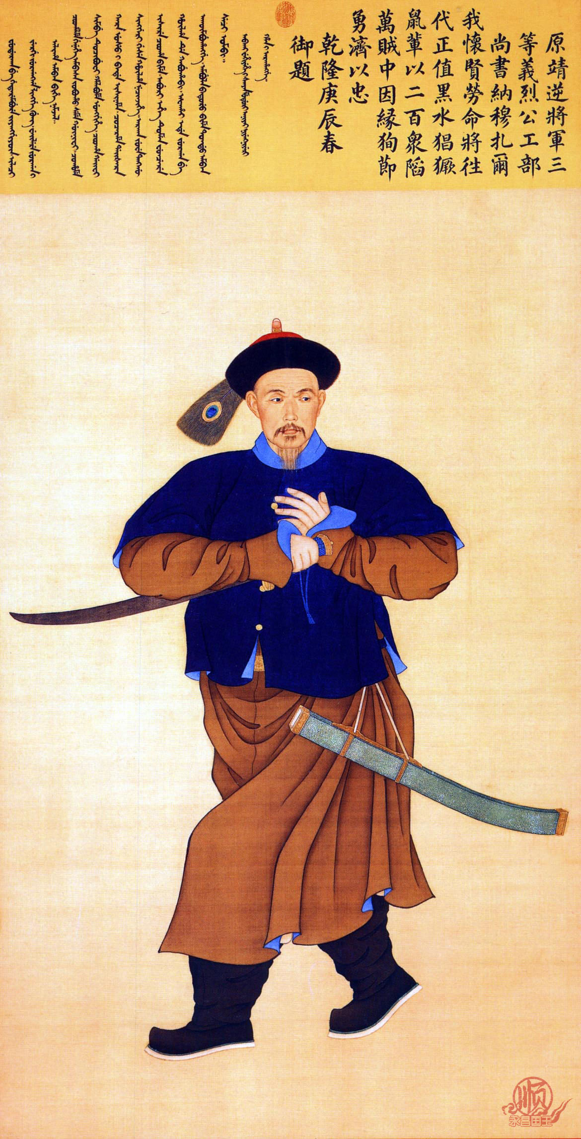 Namjal / mandsch.: Namjar (纳穆扎尔 namu zha'er), an officer of the Qing Army during Qianlong's era